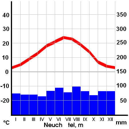 Climate diagram fro Neuchatel, Switzerland. Data from diagram created with Klimagramm